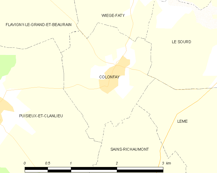 Map of French commune: Colonfay Map commune FR insee code 02206.png